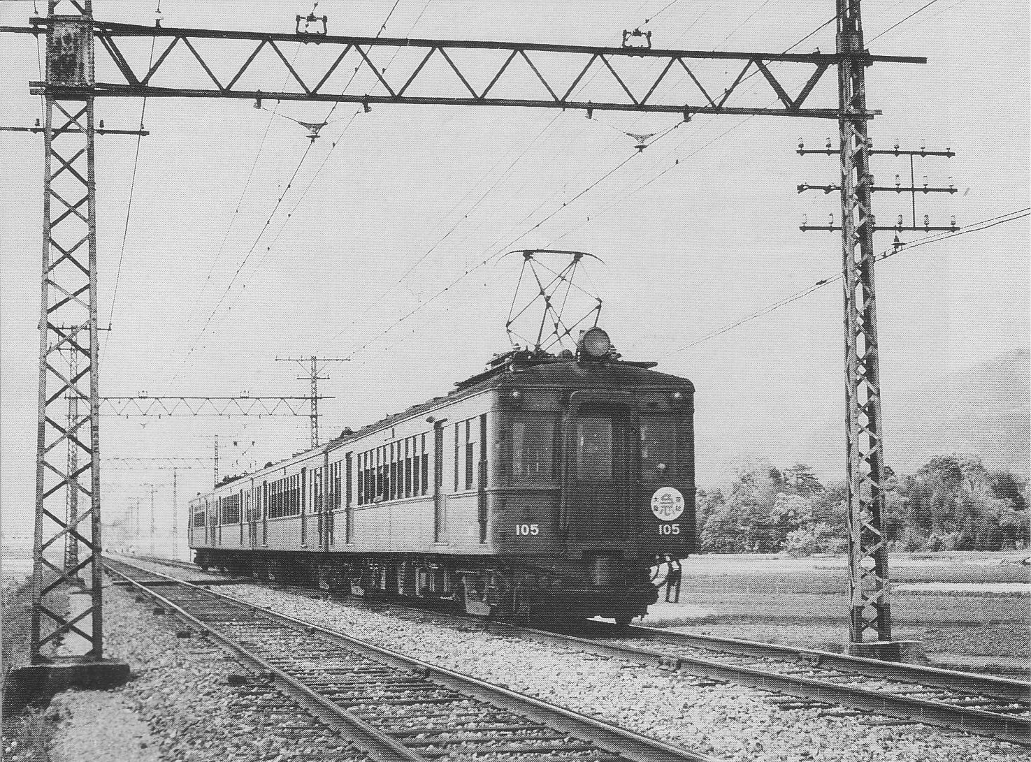 Hankyu Railway #105.